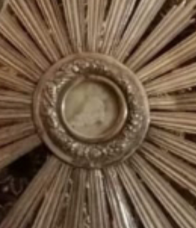 Reliquia San Prospero